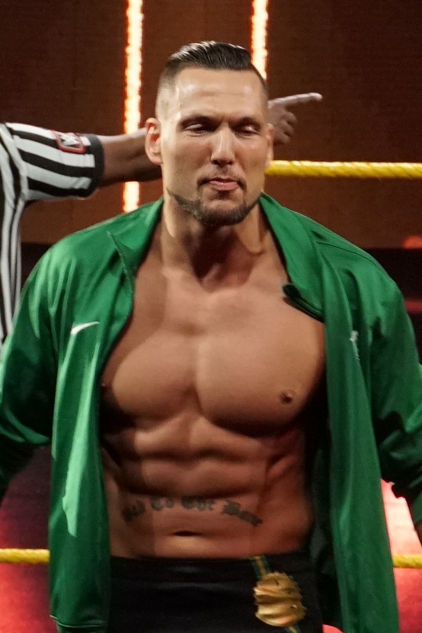 Cezar Bononi, WWE Axxess, 2018.